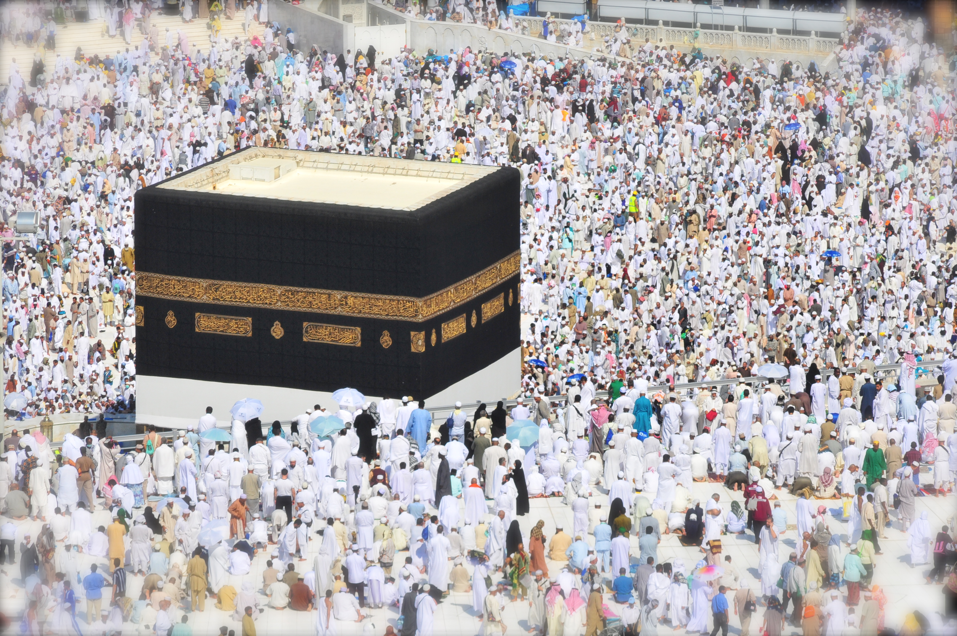 The Hajj begins in Mecca on the eighth day of the last month of the Islamic calendar. On this day, if pilgrims are not already wearing their ihram - two pieces of white cloth for me, simple, loose clothing for women - they must do so.